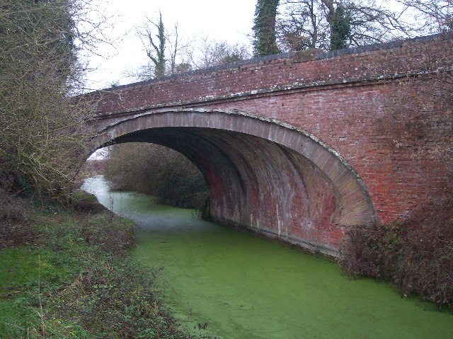 Skew Bridge, Monkhide. Built by Stephen Ballard in 1843 to take a minor no through road over the Hereford to Gloucester Canal. Rather than simply build it at right angles to the canal he went to all the trouble with stability etc in building the most skew canal bridge in Britain. Why? Because he could.